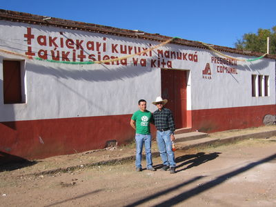 Photo of community presidency of Tuxpan de Bolanos (Huichol village) in Jalisco